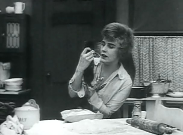 Frame still of Edna Purviance in the American comedy film The Pawnshop (1916).